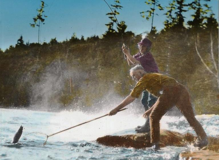 Photograph, glass lantern slide, Fishing at French River, ON, about 1925, Brigden, Silver salts and transparent ink on glass - Gelatin dry plate process - 8 x 10 cm